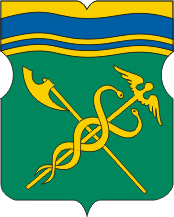 Zamoskvorechye (municipality in Moscow), coat of arms